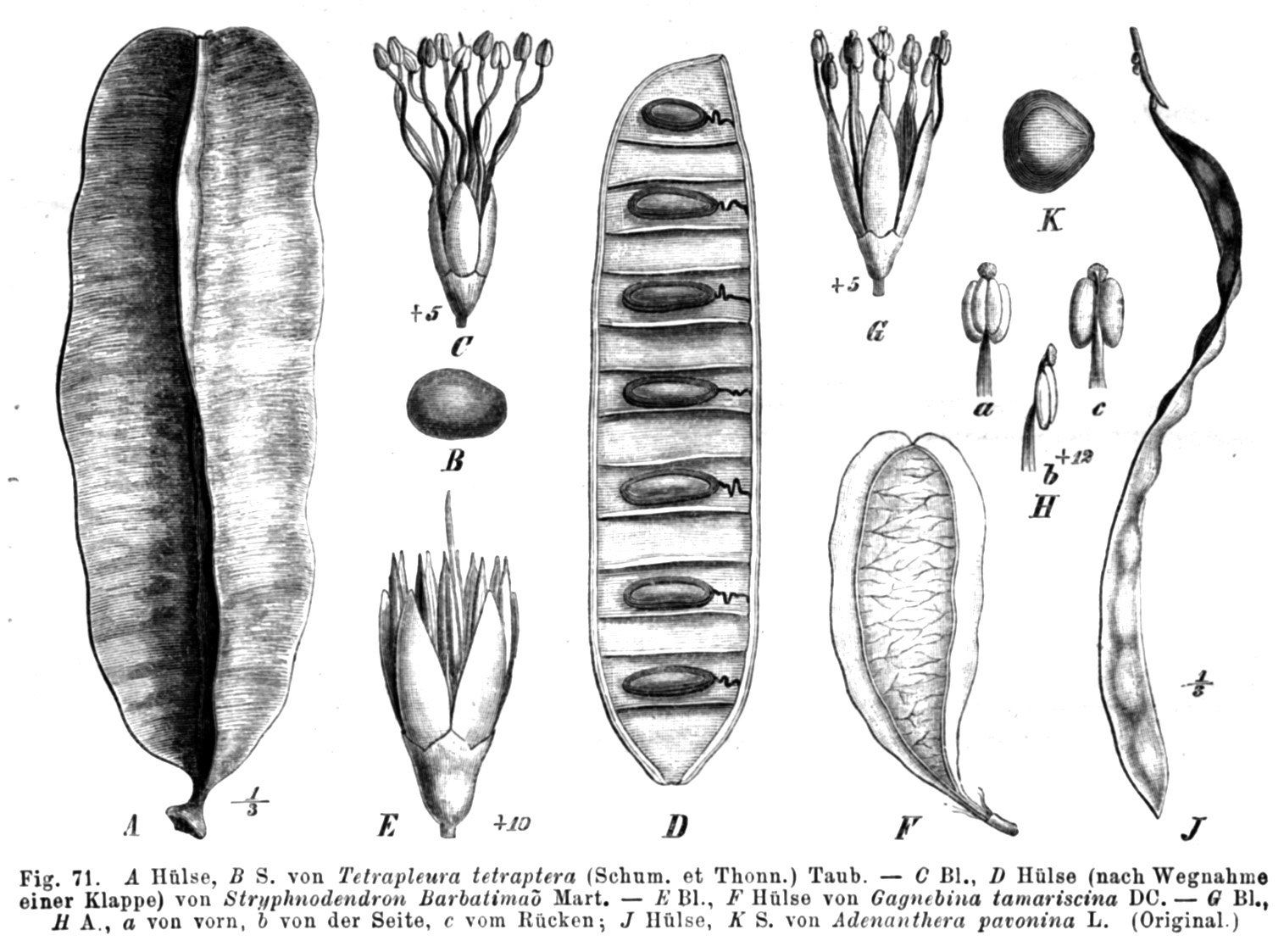 Illustration from book